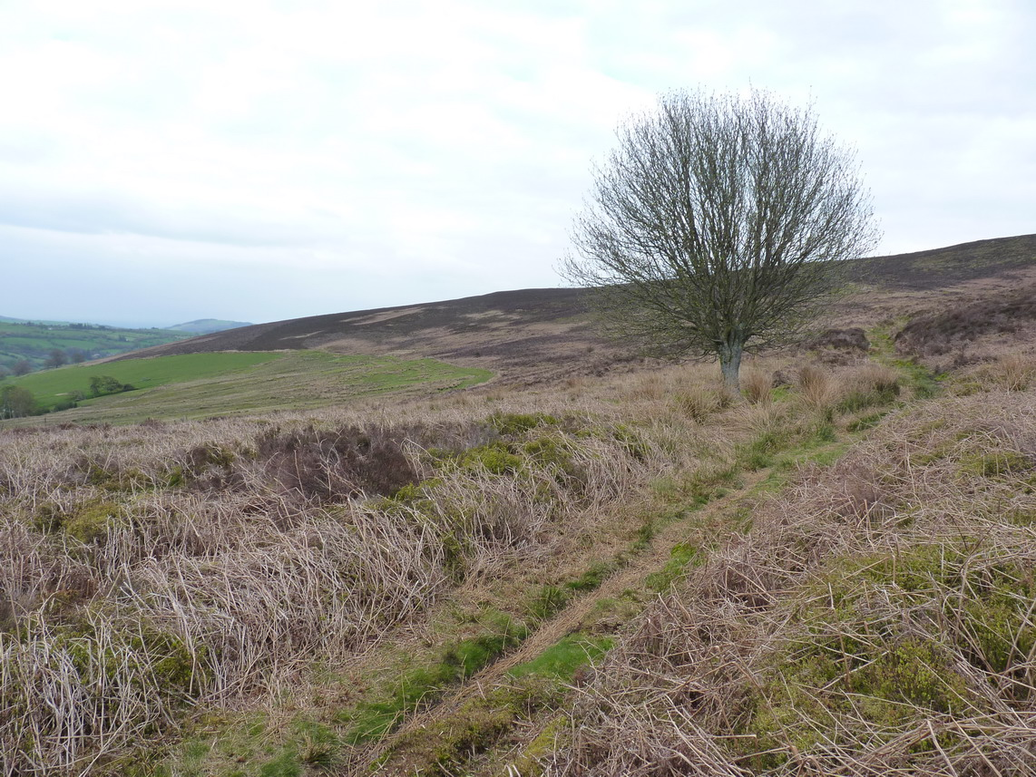 Ffordd Y Saeson - the bridleway between Rhŷd Caledwynt and Bwlch y Dolydd